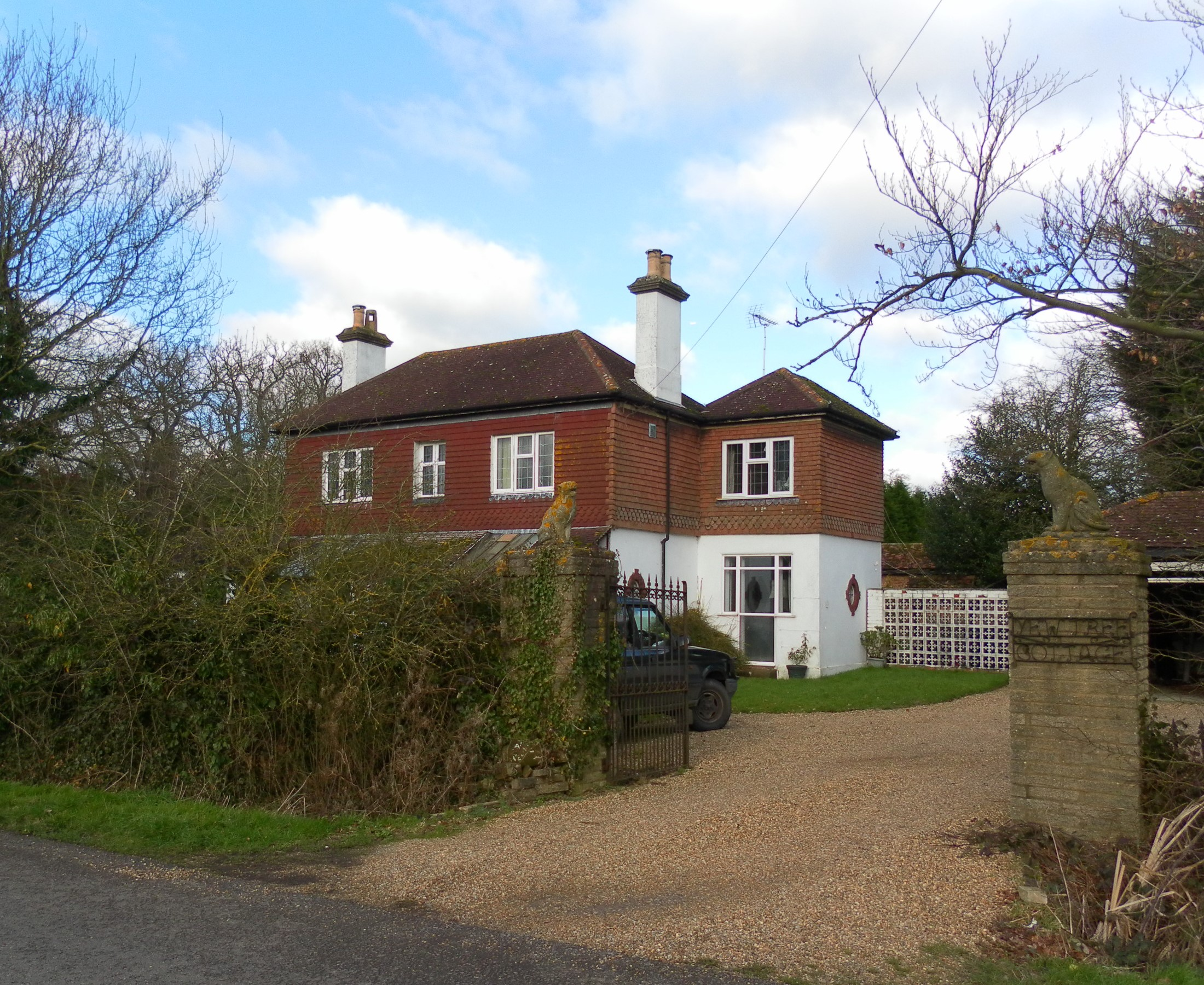 Yew Tree Cottage, Fernhill Road, Fernhill, Borough of Crawley, West Sussex, England. An old cottage near the junction of Donkey Lane.